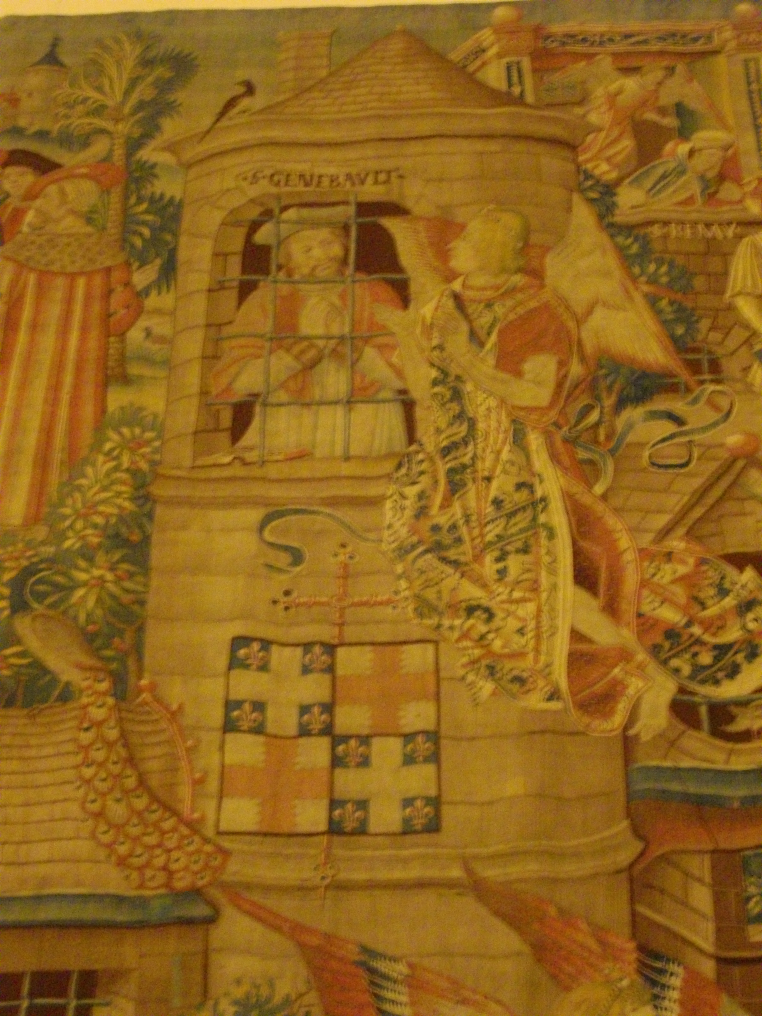 Saint Remi museum of Reims (Marne, France) ; tapestry depicting Saint Genebald